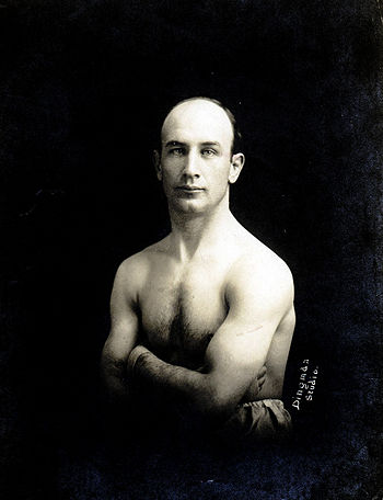 Mike Twin Sullivan, welterweight champion of the world 1907-1908.